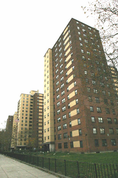 The Samuel J. Tilden Houses, one of many NYCHA public housing developments located in the Brownsville section of Brooklyn, New York City.